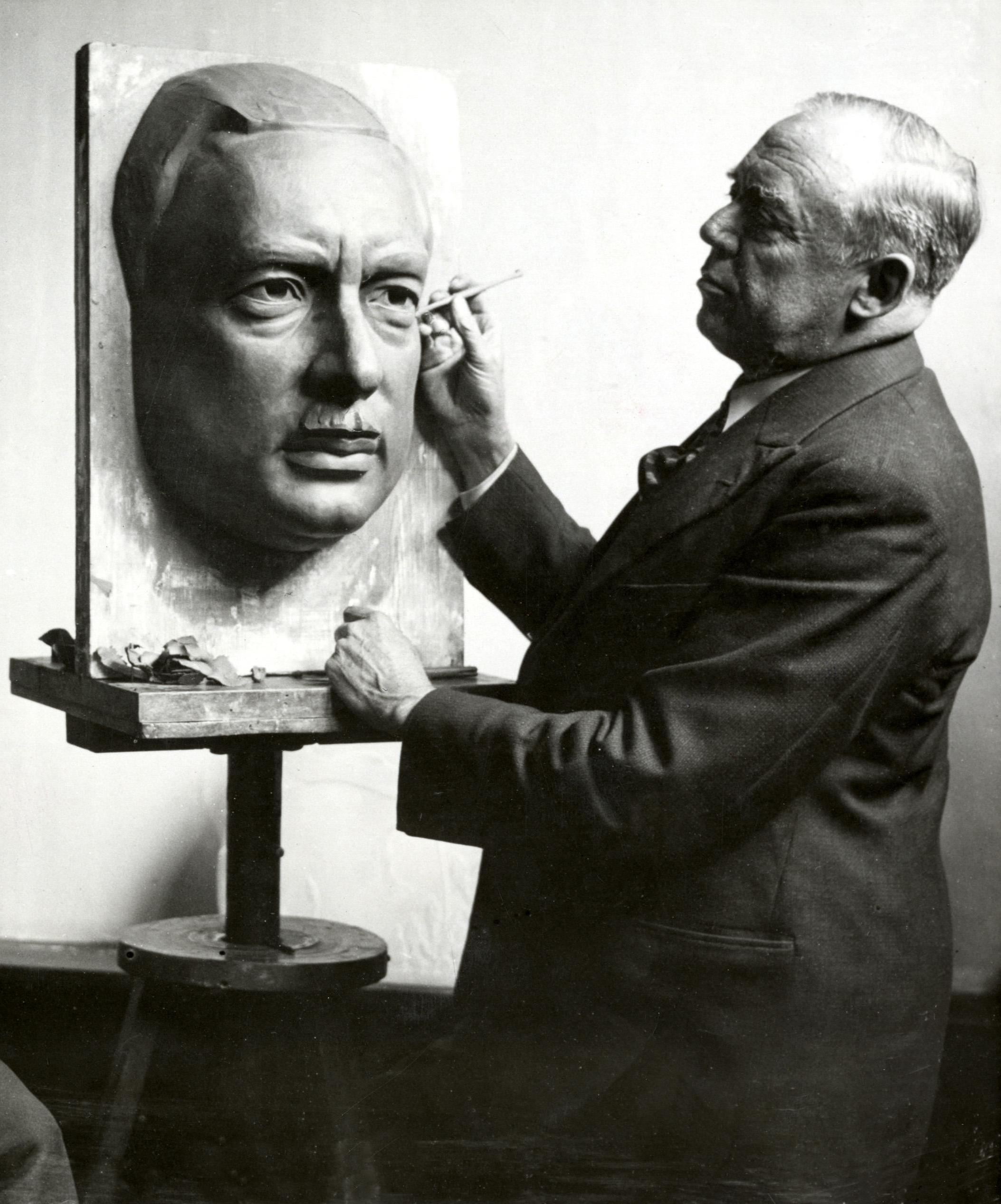 Peter Debye poses for the sculptor Tjipke Visser in Amsterdam